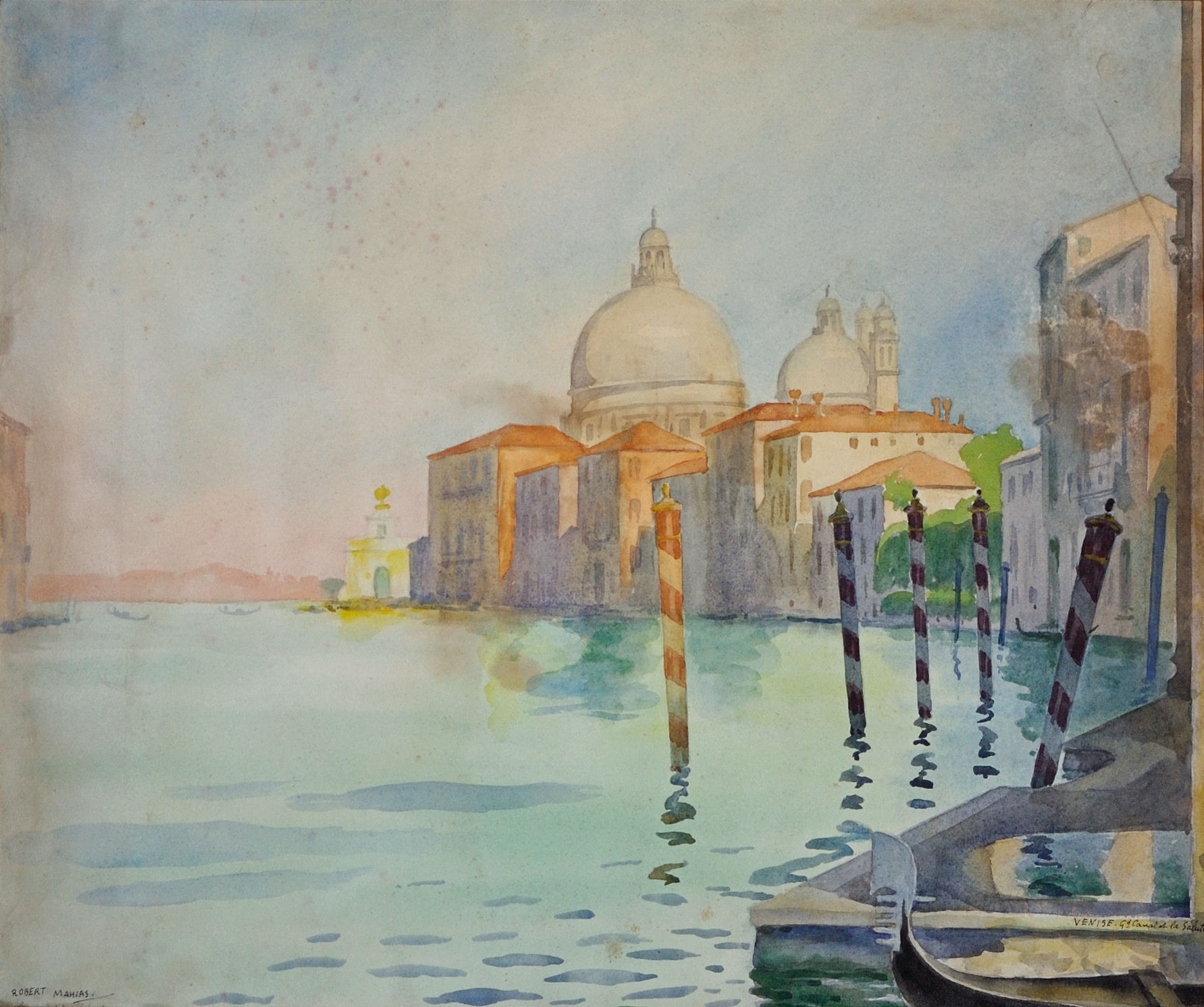 Watercolor painting by Robert Mahias.